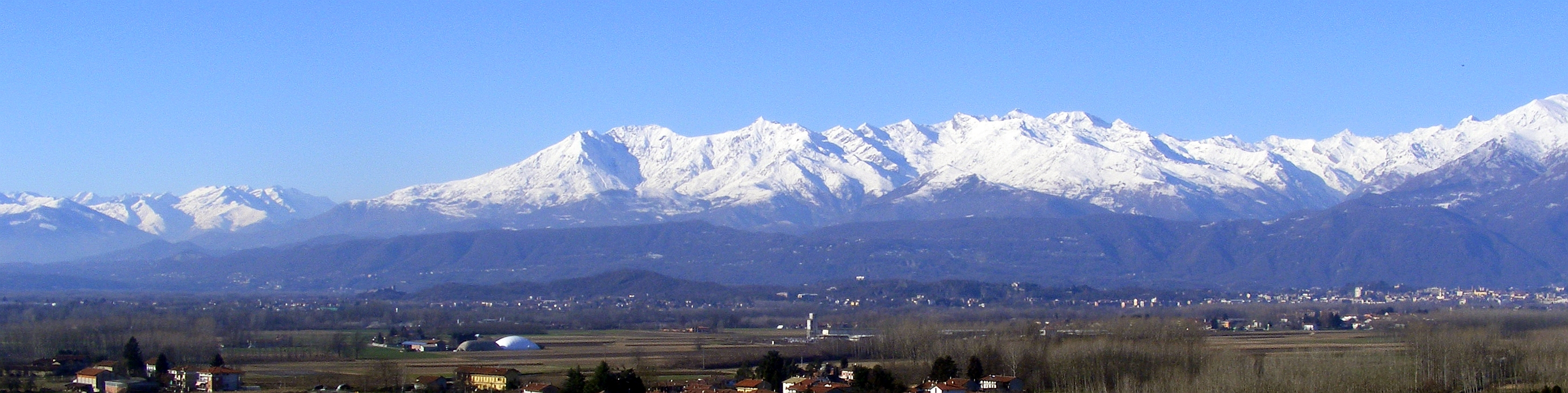 Anfiteatro Morenico di Ivrea: right lateral morain seen from Albiano's castle (TO, Italy); in the background Mount Quinseina and Punta di Verzel